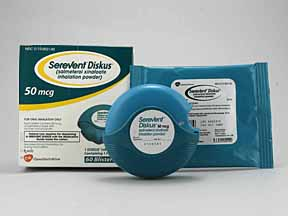 New Dry Power Inhaler Salmeterol